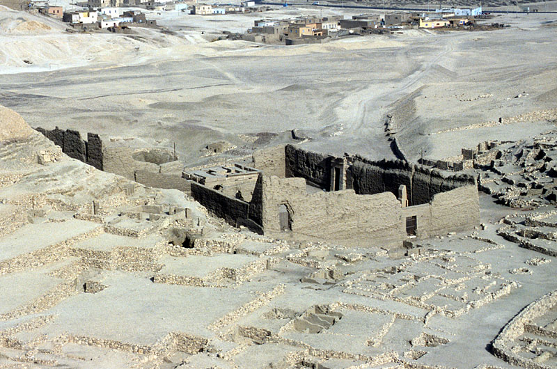 Temple of Deir el-Medina, Luxor West Bank, Egypt